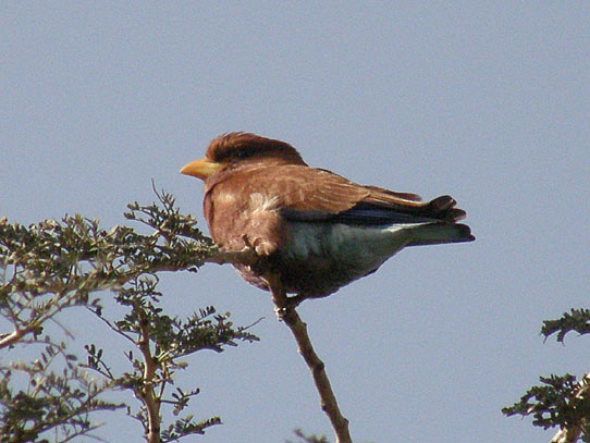 Broad-billed roller (Eurystomus glaucurus afer) photographed in Mbawane near Kayaar, Senegal